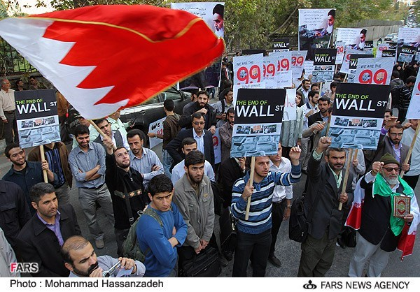 حمیدرضا احمدآبادی